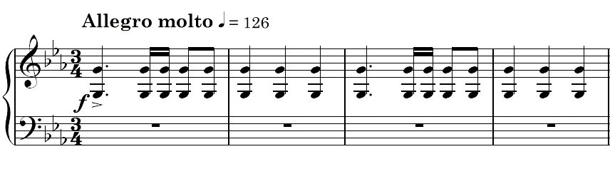 Chopin's Grande Polonaise from Op. 22 (piano solo)